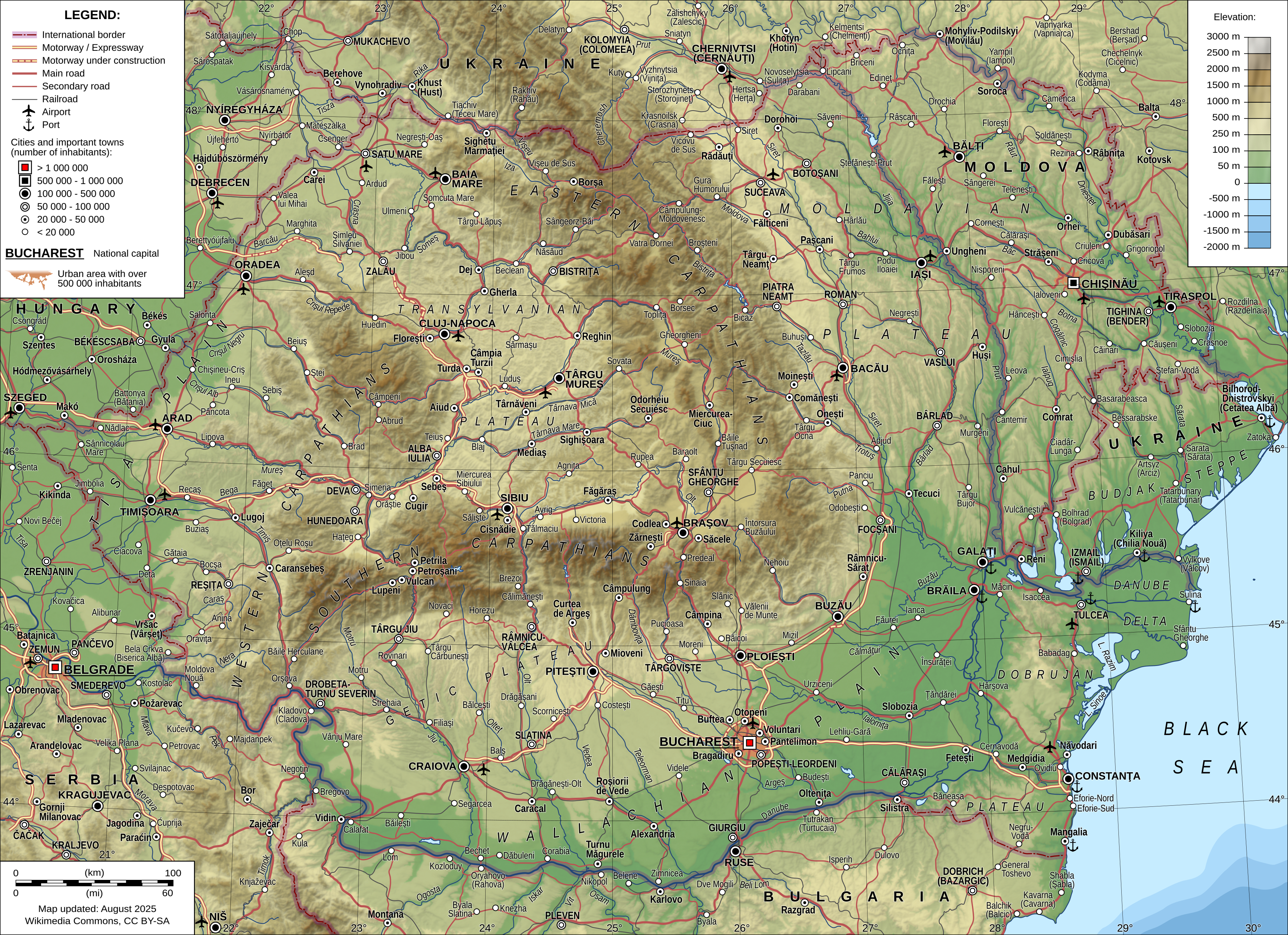 General topographic map of Romania.